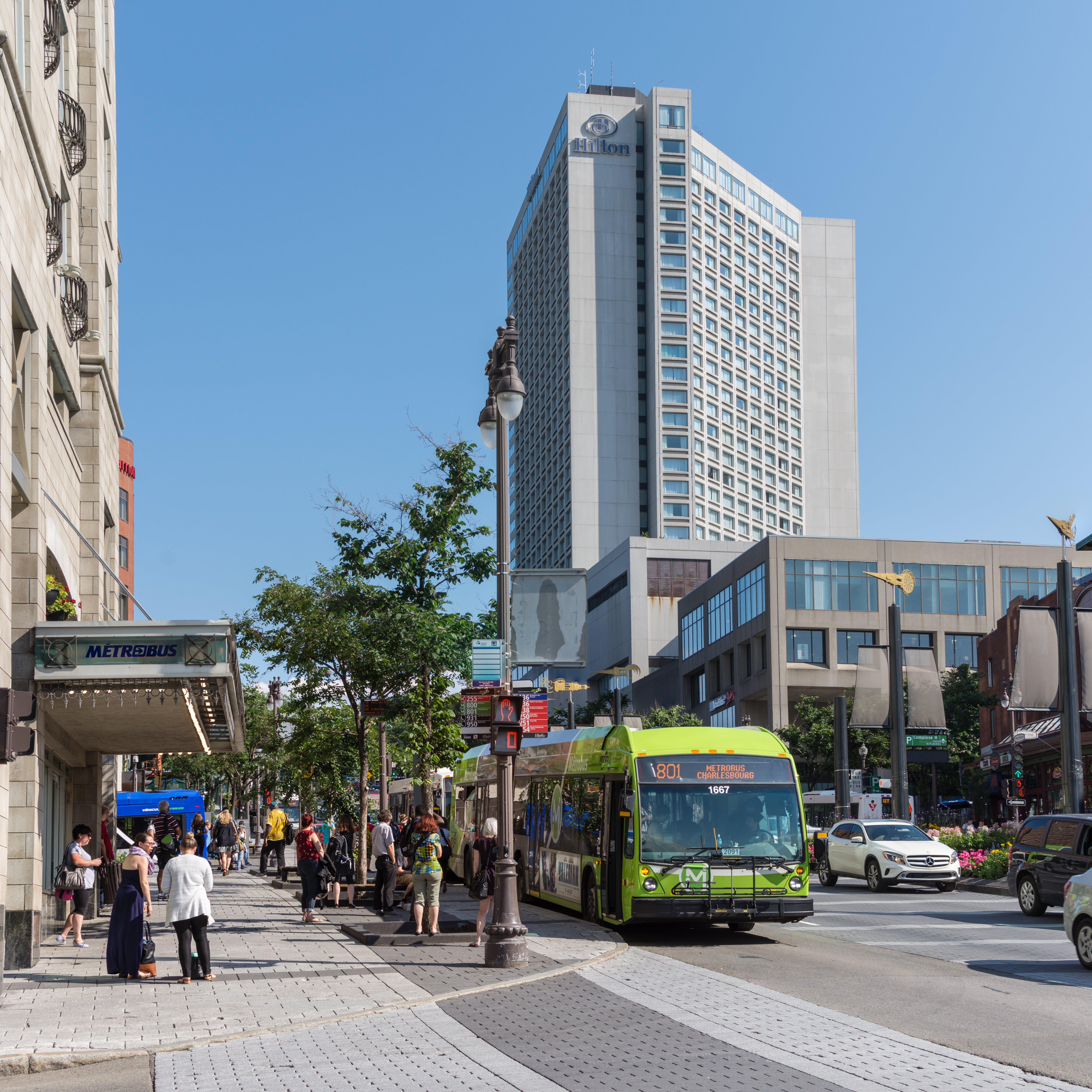 Québec city, QC, Cánada